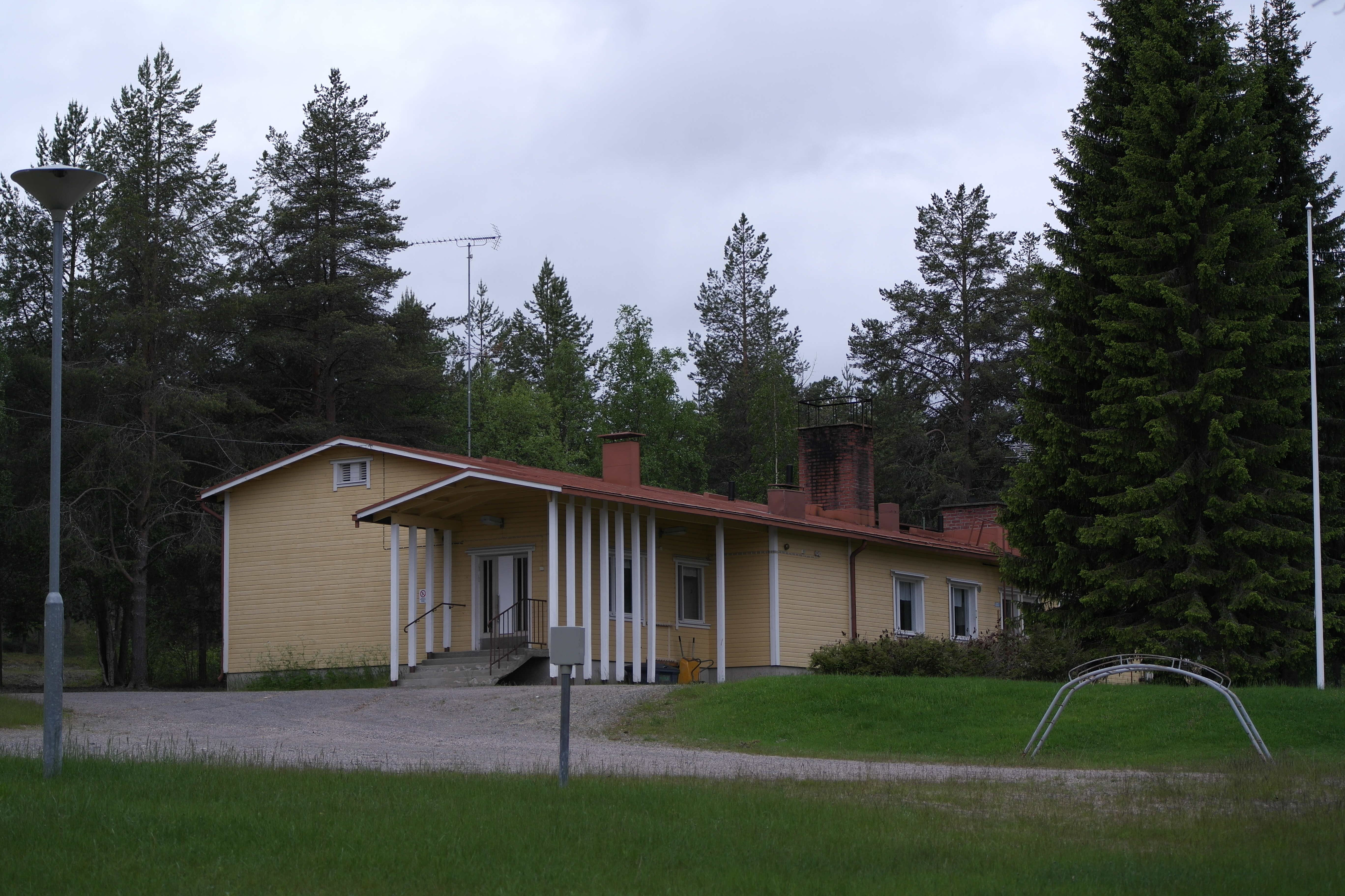 Kelloselkä school in Salla